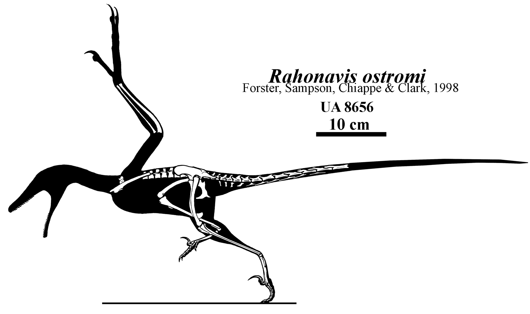 Skeletal reconstruction of Rahonavis ostromi.